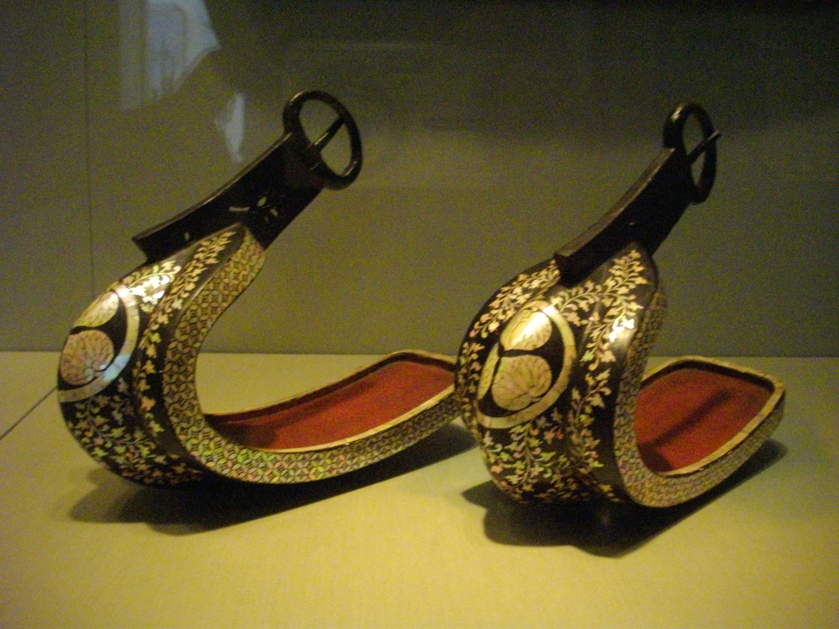 Antique Japanese (samurai) abumi" (stirrups), Metropolitan Museum.